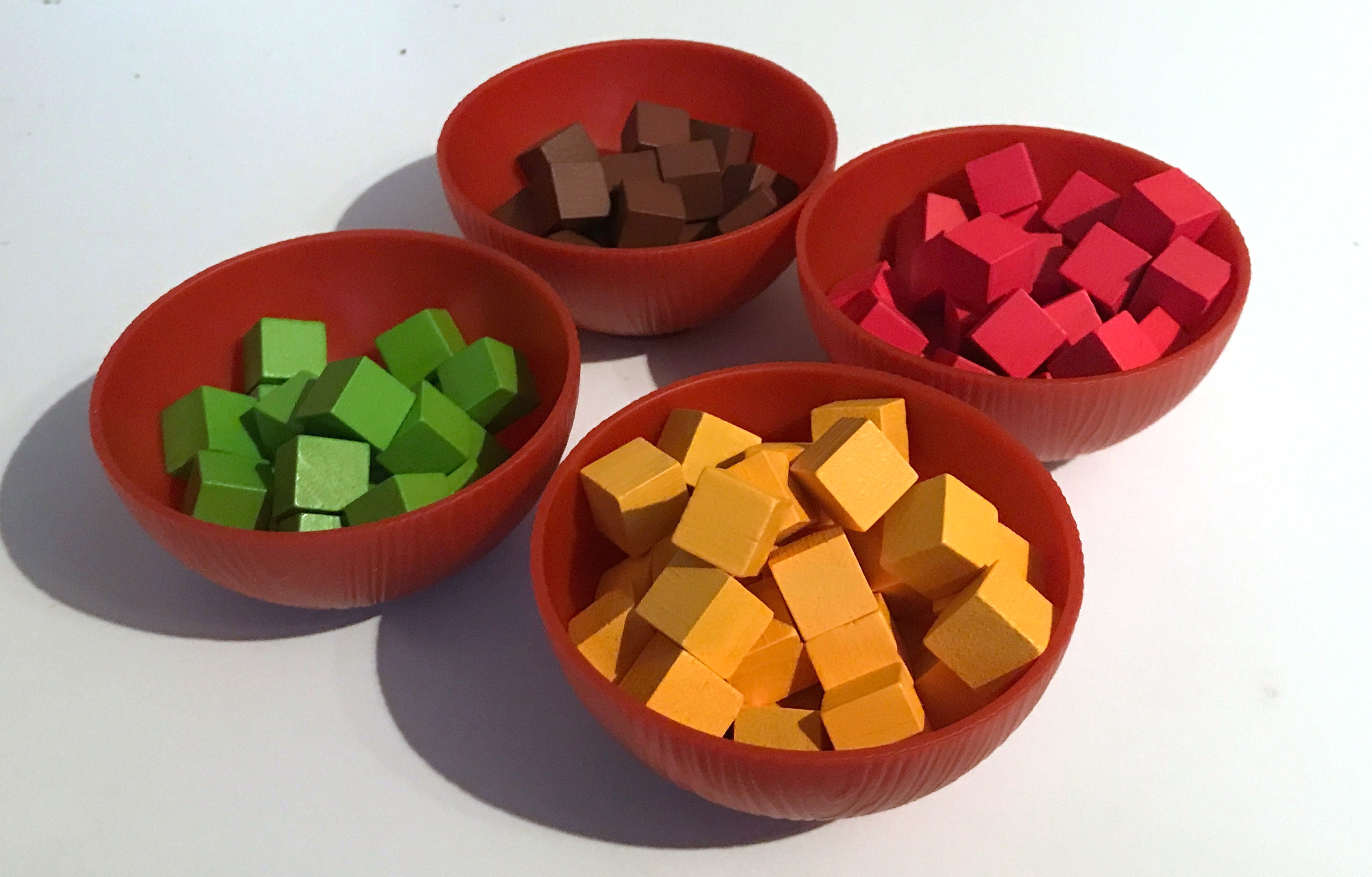 Spices from Century: Spice Road